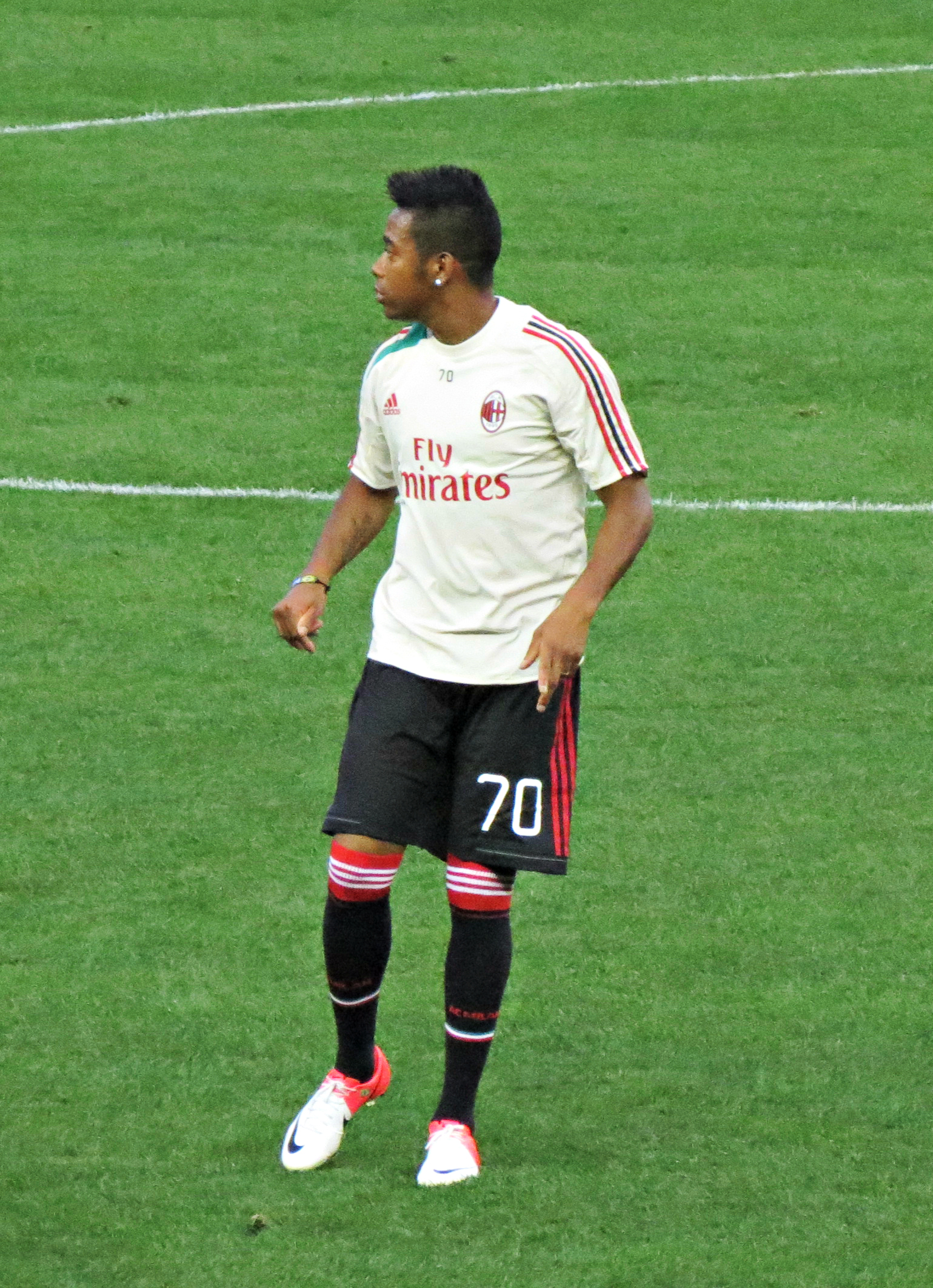 Robinho playing for AC Milan.